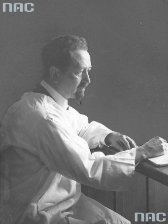 Rudolf Weigl